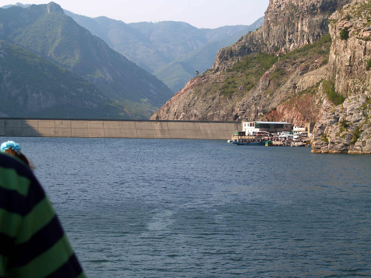 Getting close to the Western End of Lake Koman with the dam and the landing place for the ferry